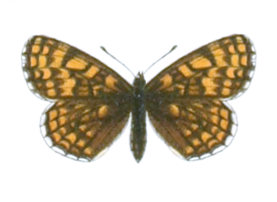 Melitaea aurelia Nick. f. mongolica Stgr. (non Staudinger, 1892: preoccupied) = Melitaea centralasiae (Wnukowsky, 1929)